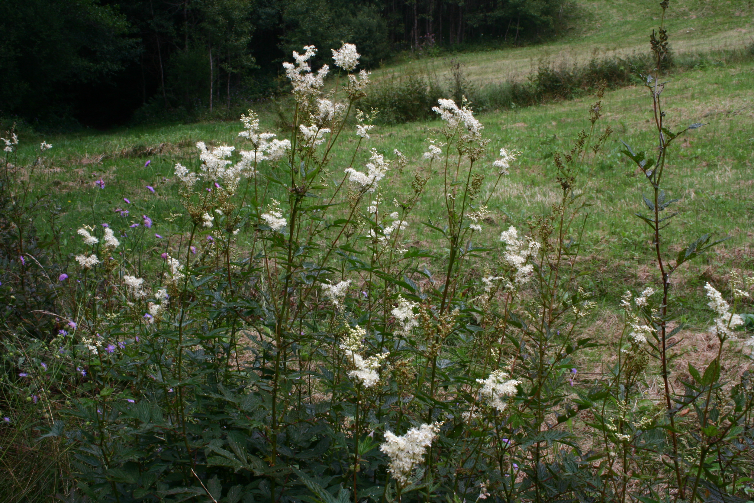 Meadowsweet (Filipendula ulmaria) in a meadow near Baiersbronn in the Black Forest.